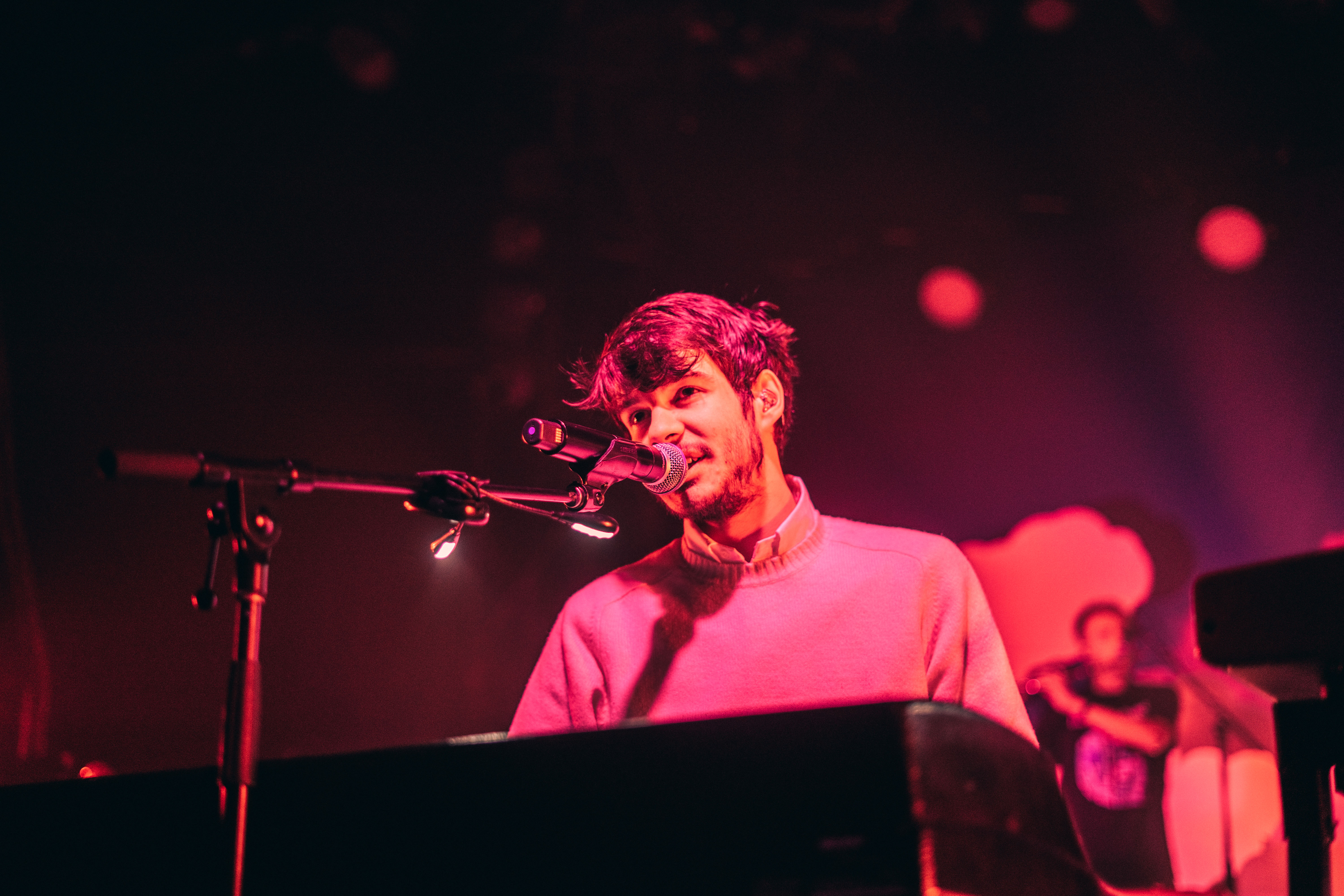 IG: @sky.high.photog)